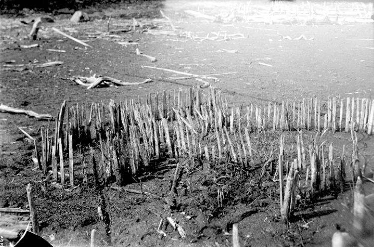 Remains of a fish trap, "katsa" in Stora viken on the western side of Lake Unden, Älgarås parish, Västergötland in Sweden. This kind of fish trap was mostly used for catching pike (Esox lucius) and zander (Sander lucioperca)